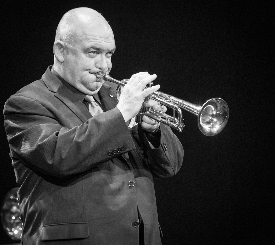 James Morrisson with Brazz Brothers at Chat Noir. The concert was part of Oslo Jazzfestival and took place on 19. August 2017 in Oslo. Lineup: James Morrisson (trumpet), Helge Førde (trombone), Jan Magne Førde (trumpet), Runar Tafjord (horn), Stein Erik Tafjord (tuba), Kenneth Ekornes (drums) and Kåre Nymark jr (trumpet).